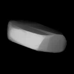 3D convex shape model of 802 Epyaxa, computed using light curve inversion techniques. J. Hanuš, J. Ďurech, M. Brož, B. D. Warner (June 2011). "A study of asteroid pole-latitude distribution based on an extended set of shape models derived by the lightcurve inversion method". Astronomy and Astrophysics 530: A134. ISSN 0004-6361. arXiv